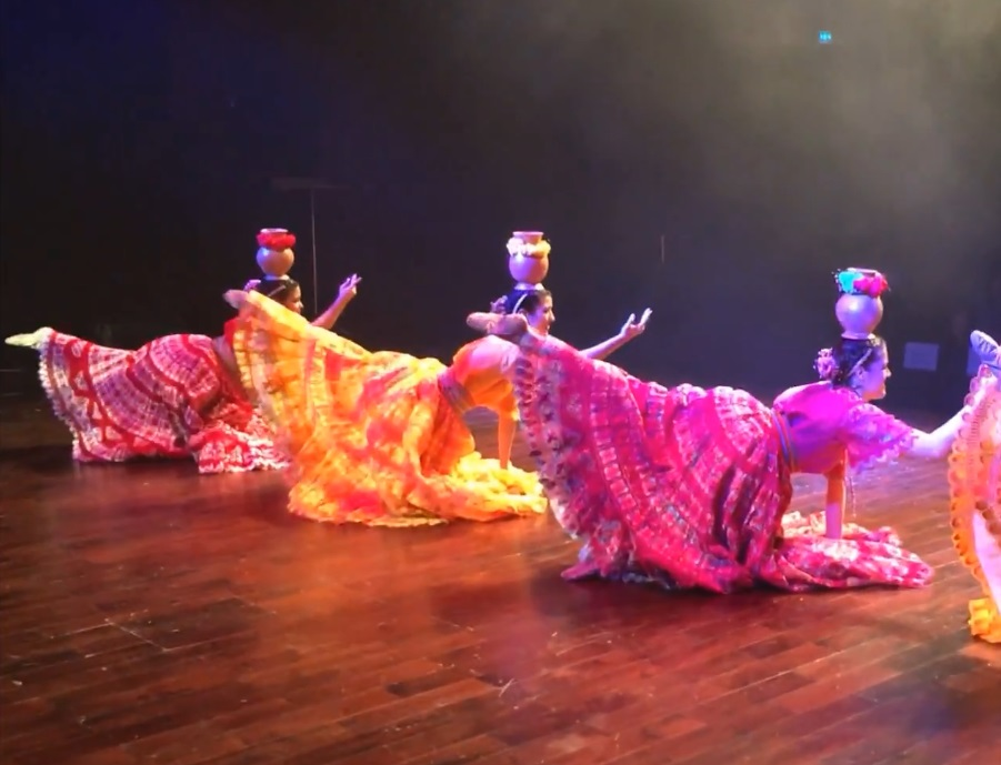 Women dancing the Galopera in the teacher day. Galopera is a folk dance from Paraguay.